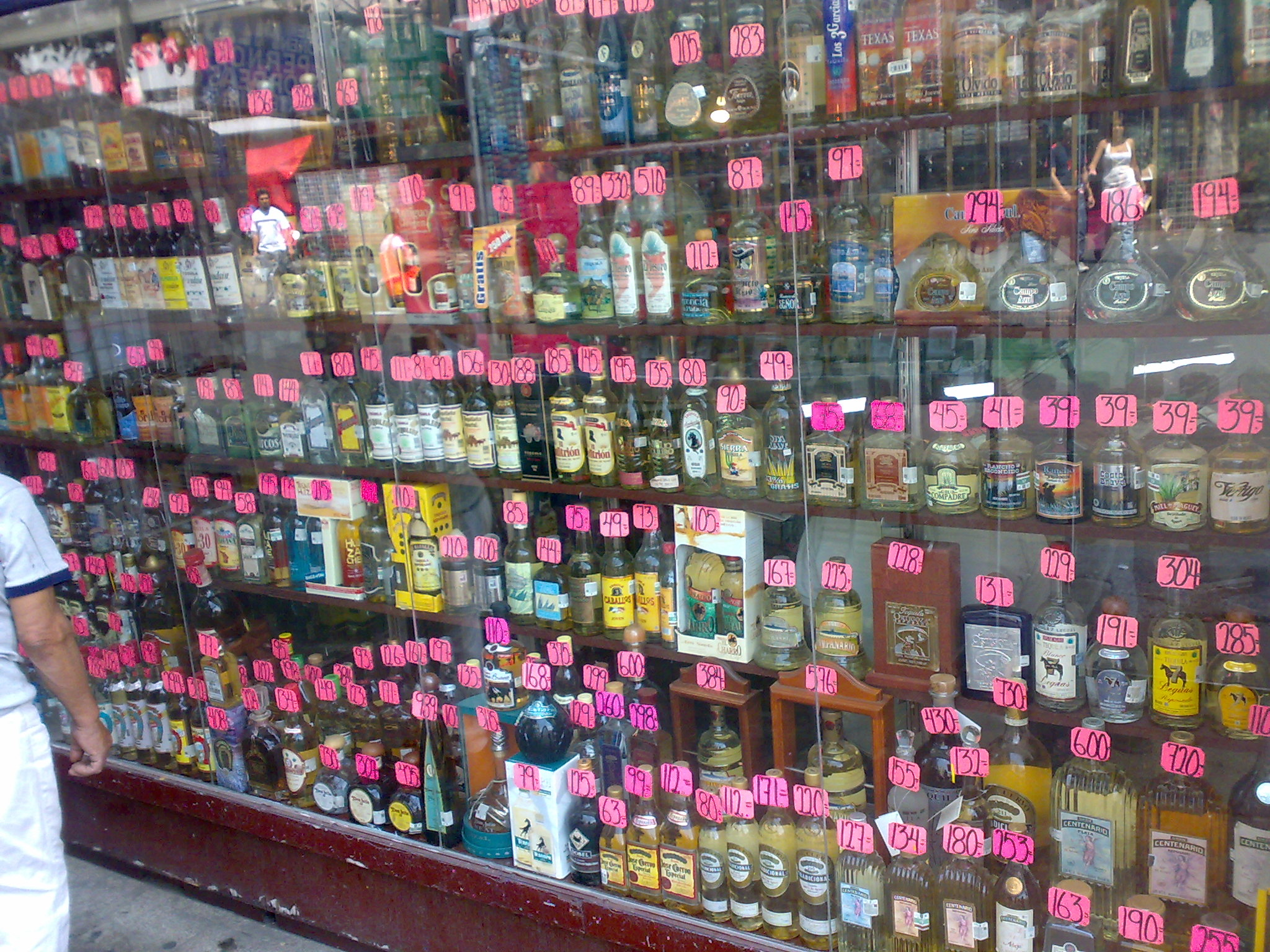 Various bottles of Tequila